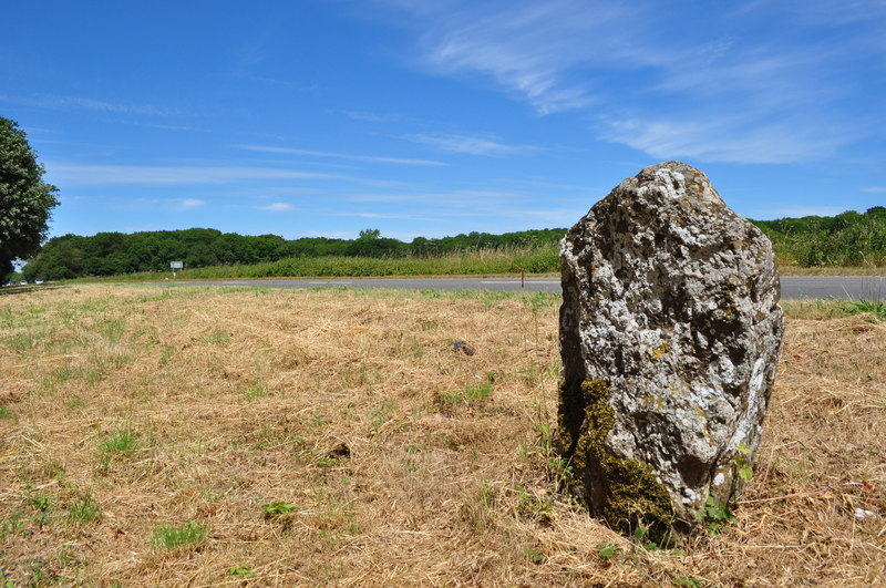 The Stockton Stone - Glacial Erratic, near to Stockton, Norfolk, Great Britain. The oblong piece of sandstone was placed nearby by ice, during the last ice age.